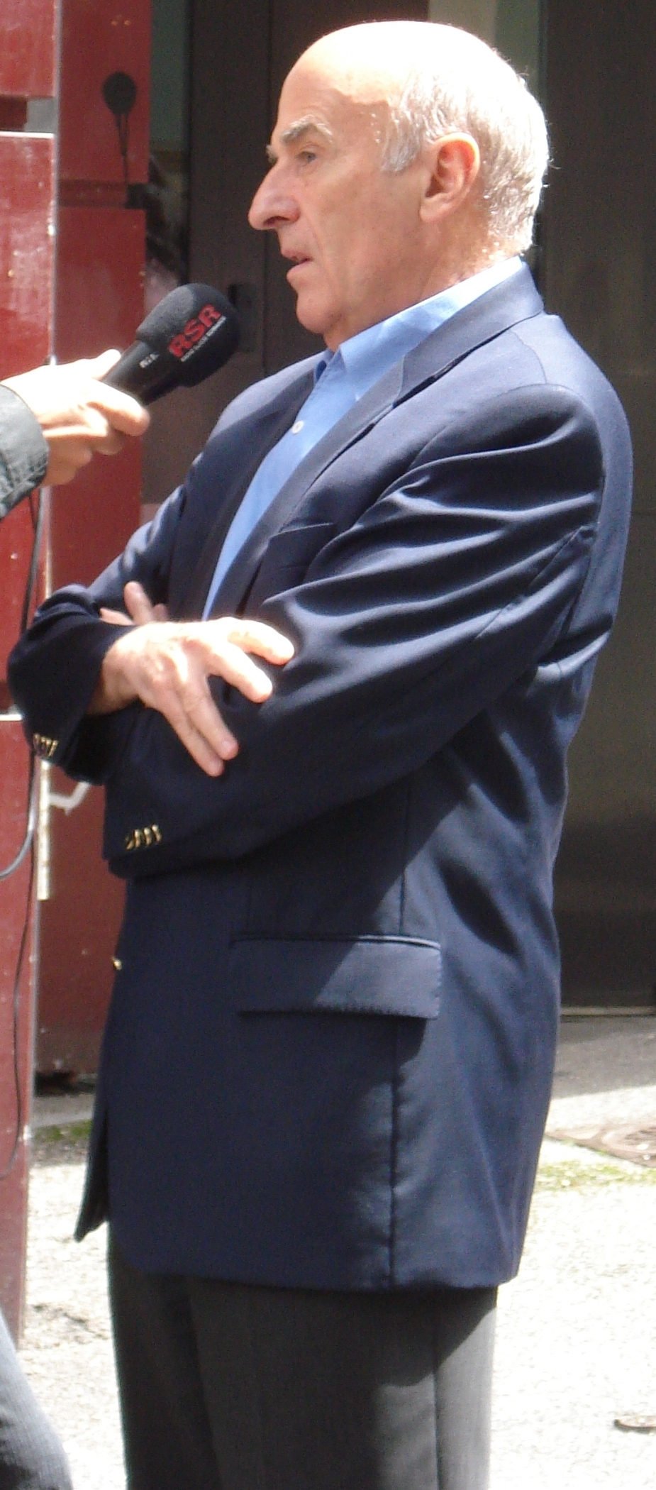 Hans-Rudolf Merz, member of the Swiss Federal Council, in Geneva, Switzerland.